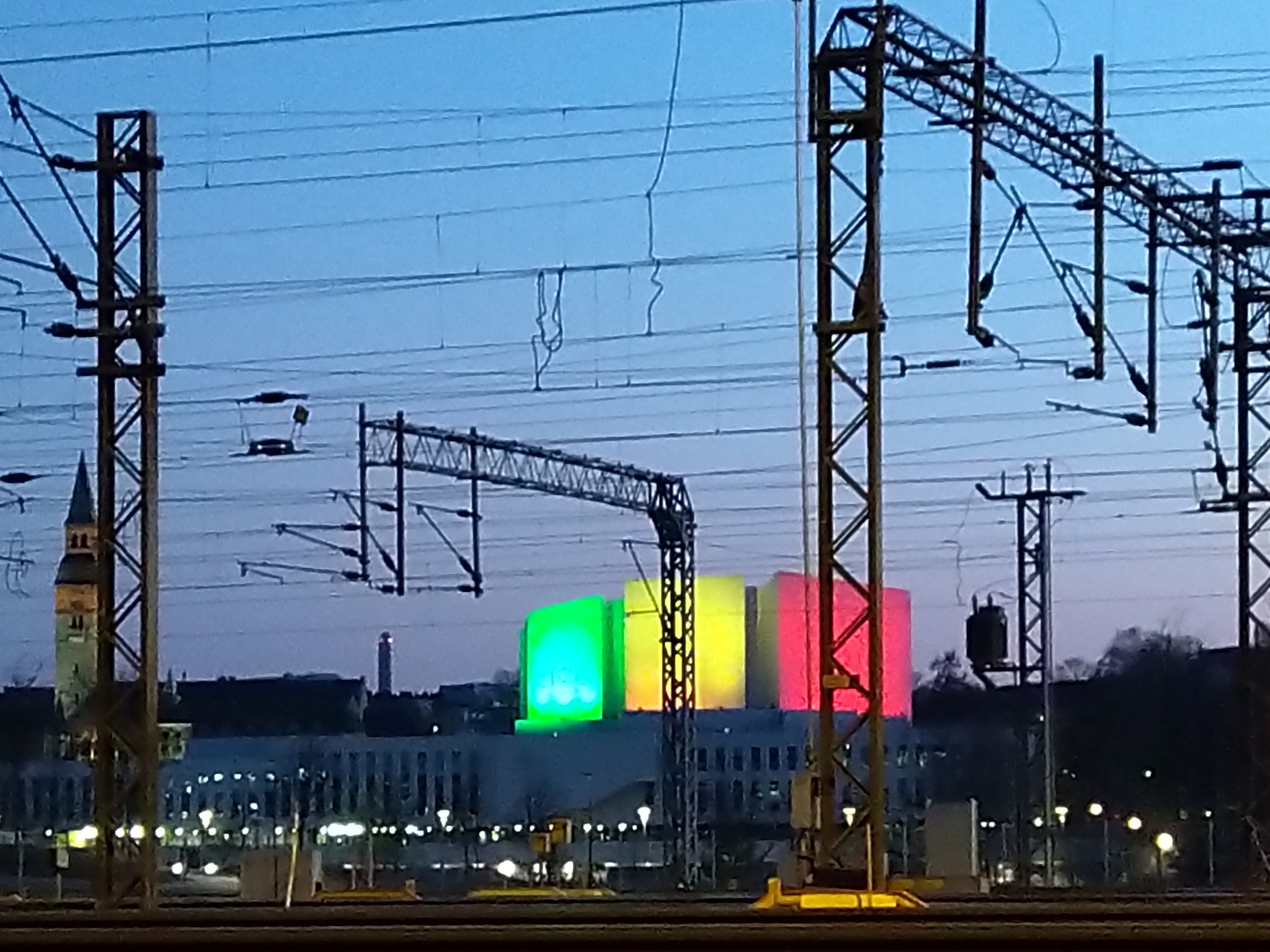 Finlandia Hall, Helsinki, Finland, in 23th April 2019, illuminated green, yellow and red (main colors of the Sri Lanka flag) as a mark of respect for the victims of the recent terrorist attacks in Sri Lanka Easter 2019.